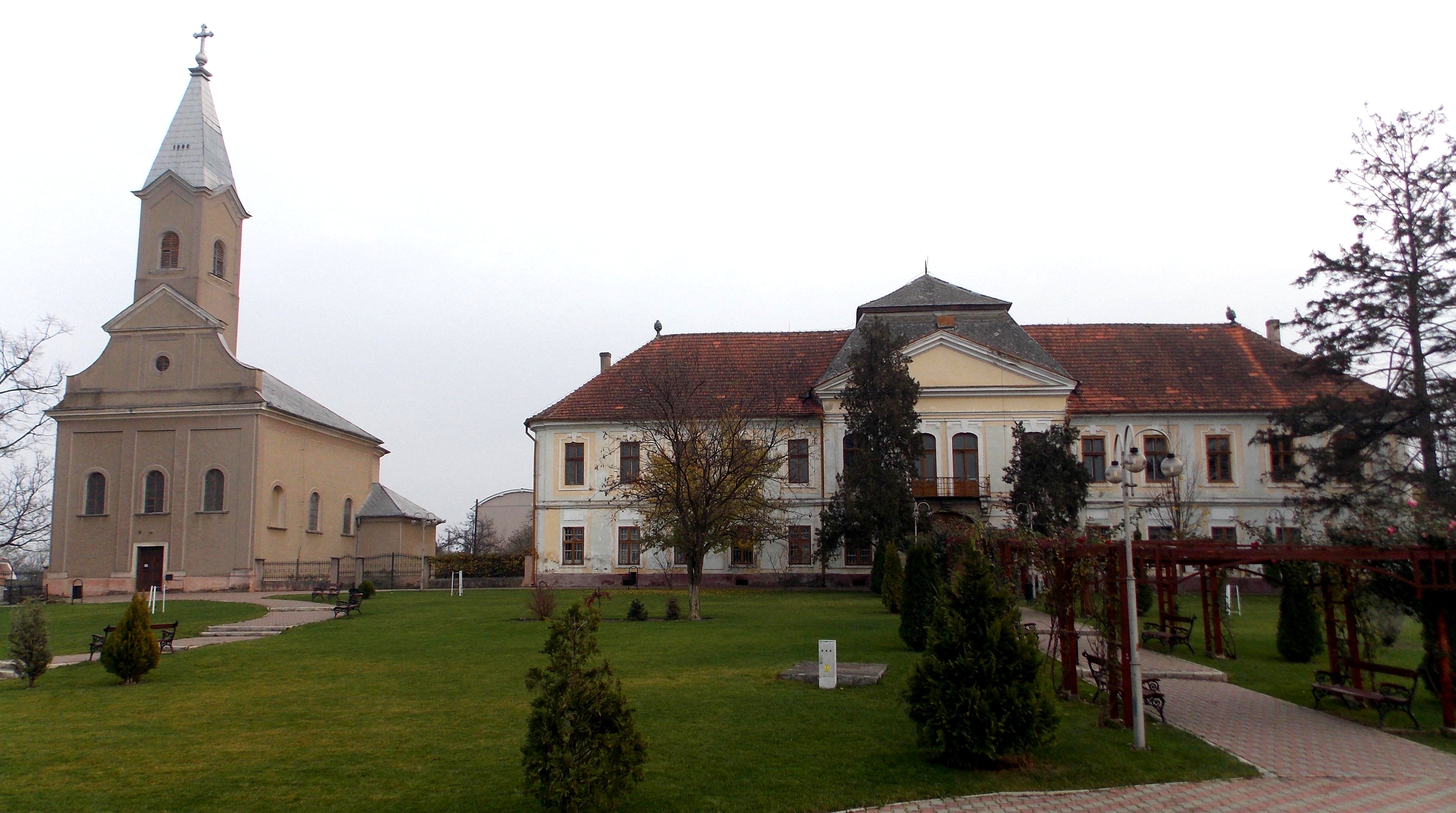 Castle and Church - Sinmartin, RomaniaRomână: Castelul (fostă mănăstire premonastrensă) și Biserica - Sînmartin (Bihor)